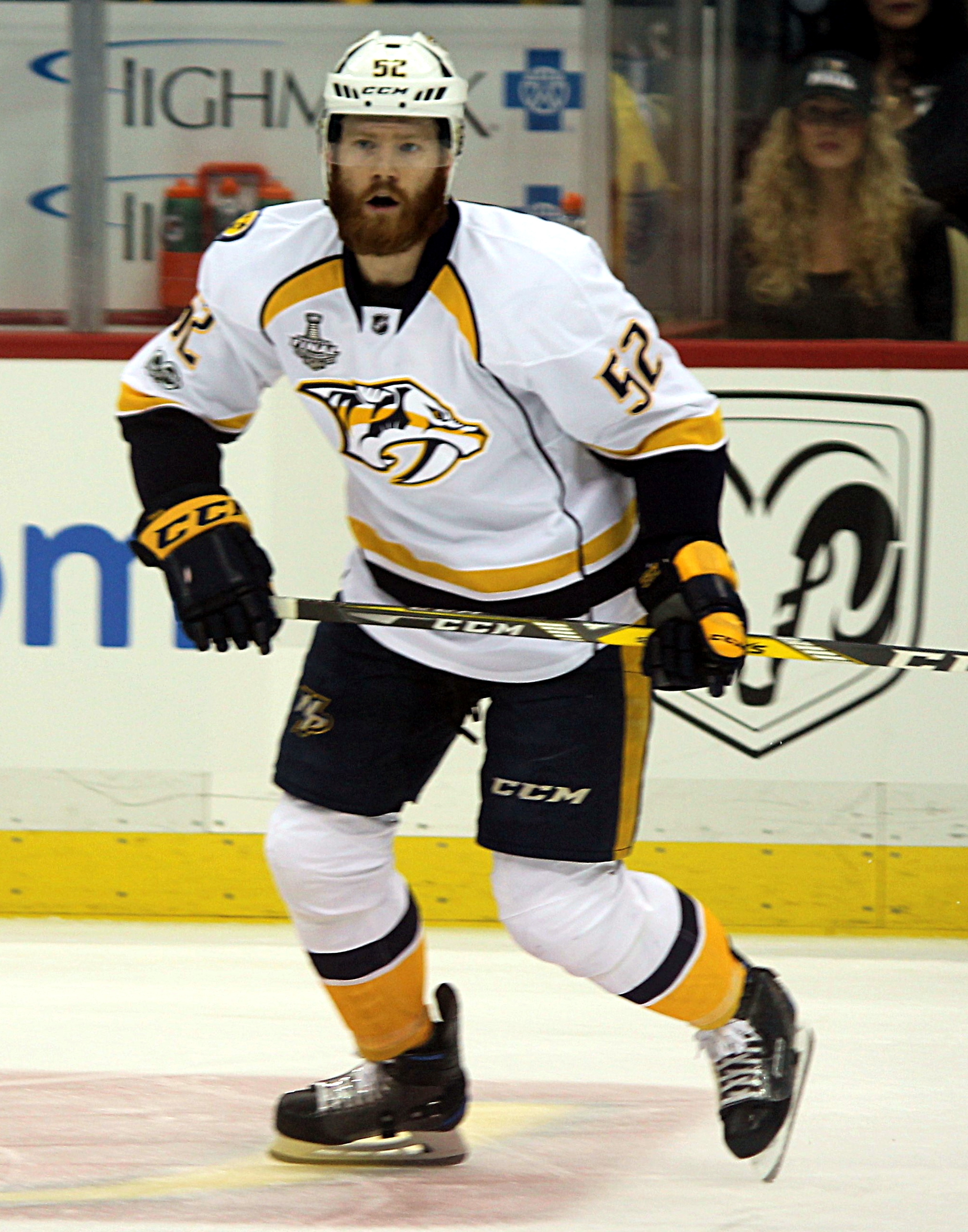 Nashville Predators defenseman Matt Irwin during 2017 Stanley Cup Finals game 5, June 8, 2017, against the Pittsburgh Penguins at PPG Paints Arena in Pittsburgh, PA.